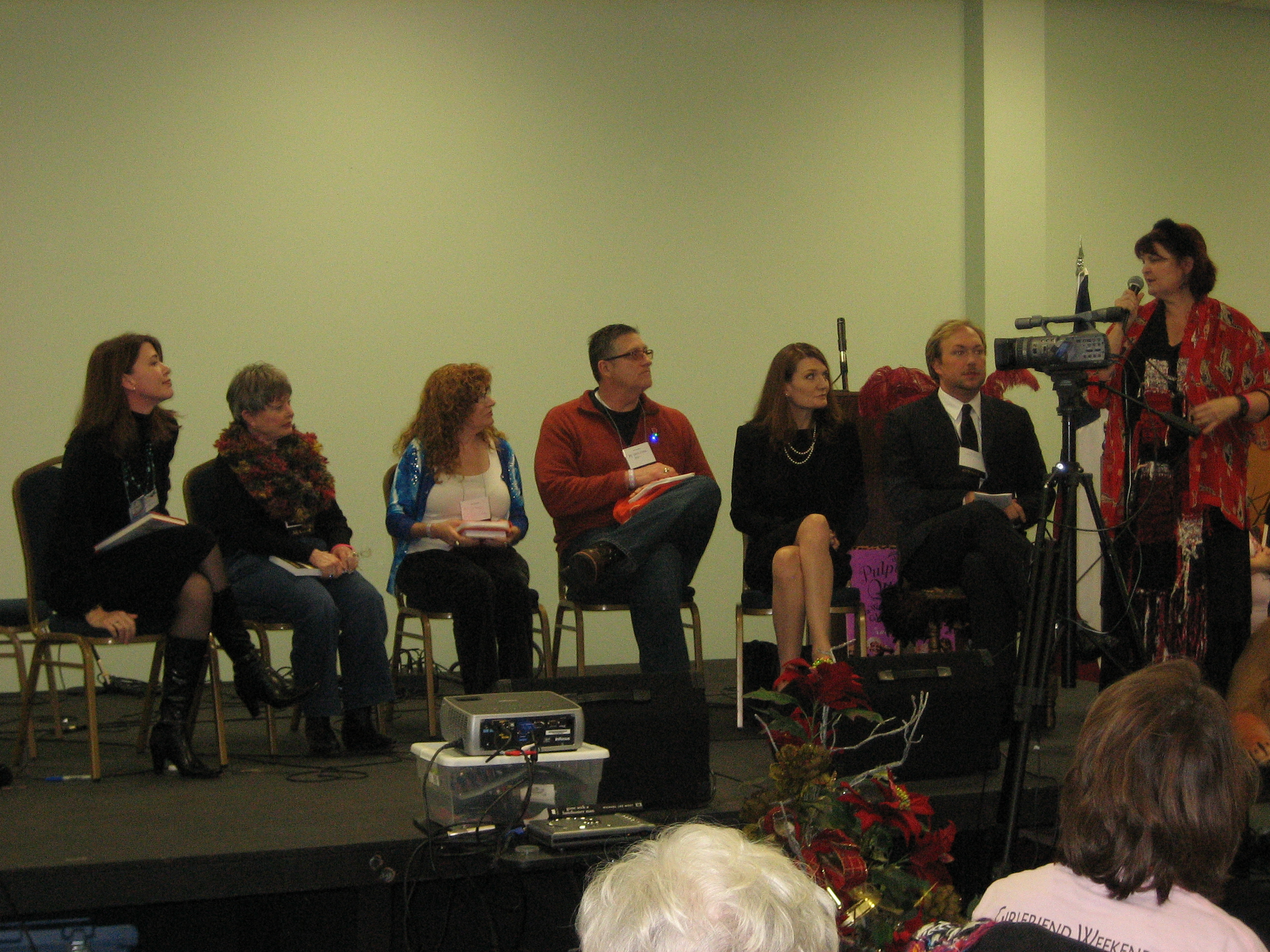 A Girlfriend Weekend 2011 panel led by Kathy Patrick featuring NYTimes bestselling author Jeannette Walls, third from right.